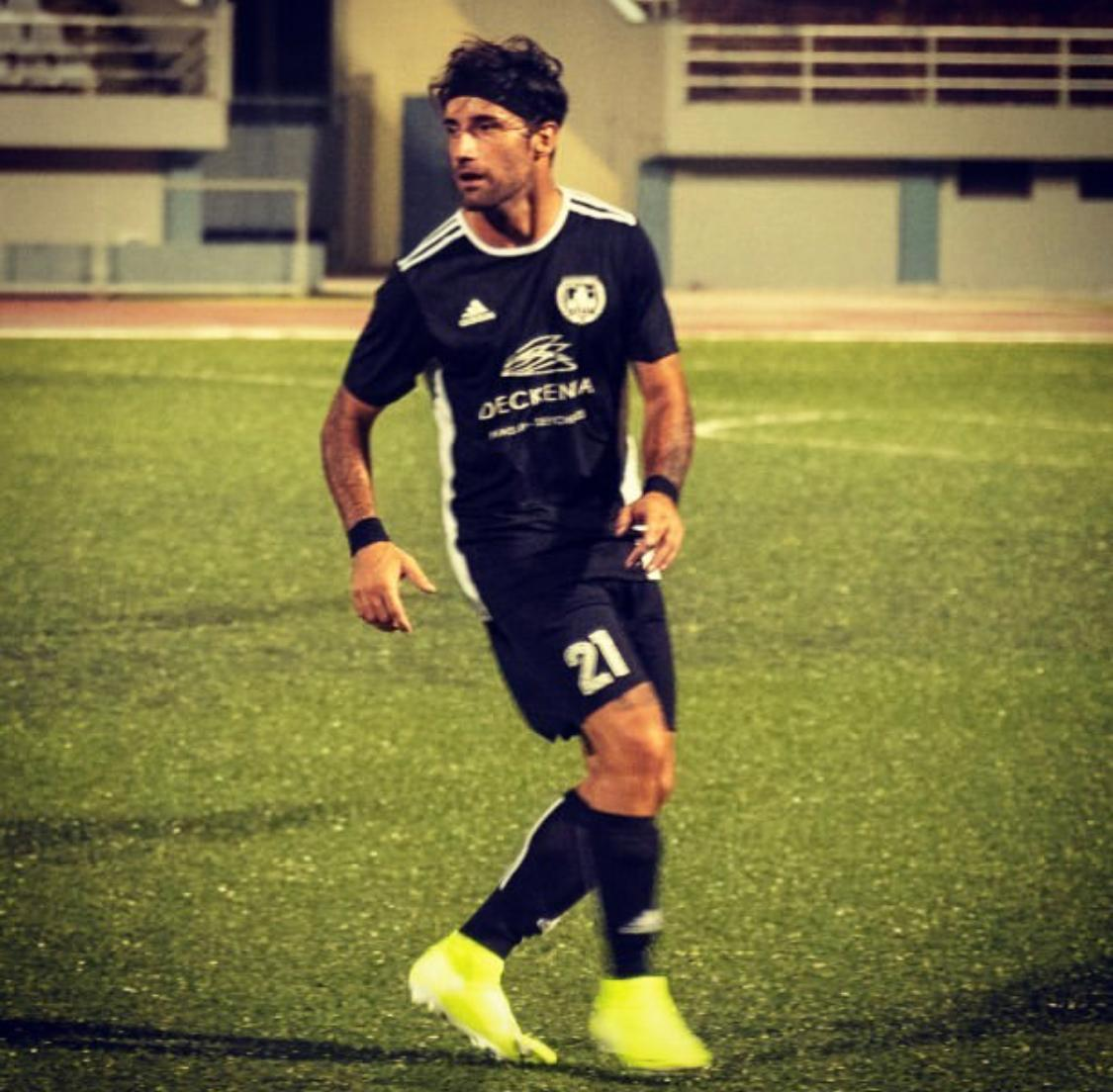 Mario Ferri Falco in Victoria A.C